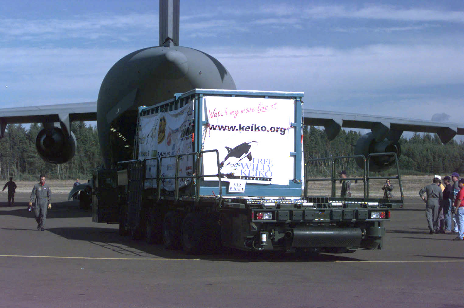 An Air Force 60K Tunner cargo loader approaches a C-17 Globemaster III in preparation for loading the specially made transport tank containing Keiko, the killer whale star of the "Free Willy" movie, at the Newport Municipal Airport in Newport, Oregon, on Sept. 9, 1998. Keiko was loaded into his specially made transport tank at the Oregon State Aquarium, then transported by United Parcel Service to the airport. The aircraft from the 15th Airlift Squadron and its killer whale cargo will fly nonstop to the Westman Islands in Iceland. The Free Willy Keiko Foundation is paying the Air Force to airlift the whale back to his native waters. The C-17 Globemaster III is the only aircraft that can accomplish moving such a large load and deliver it to a short, remote runway.